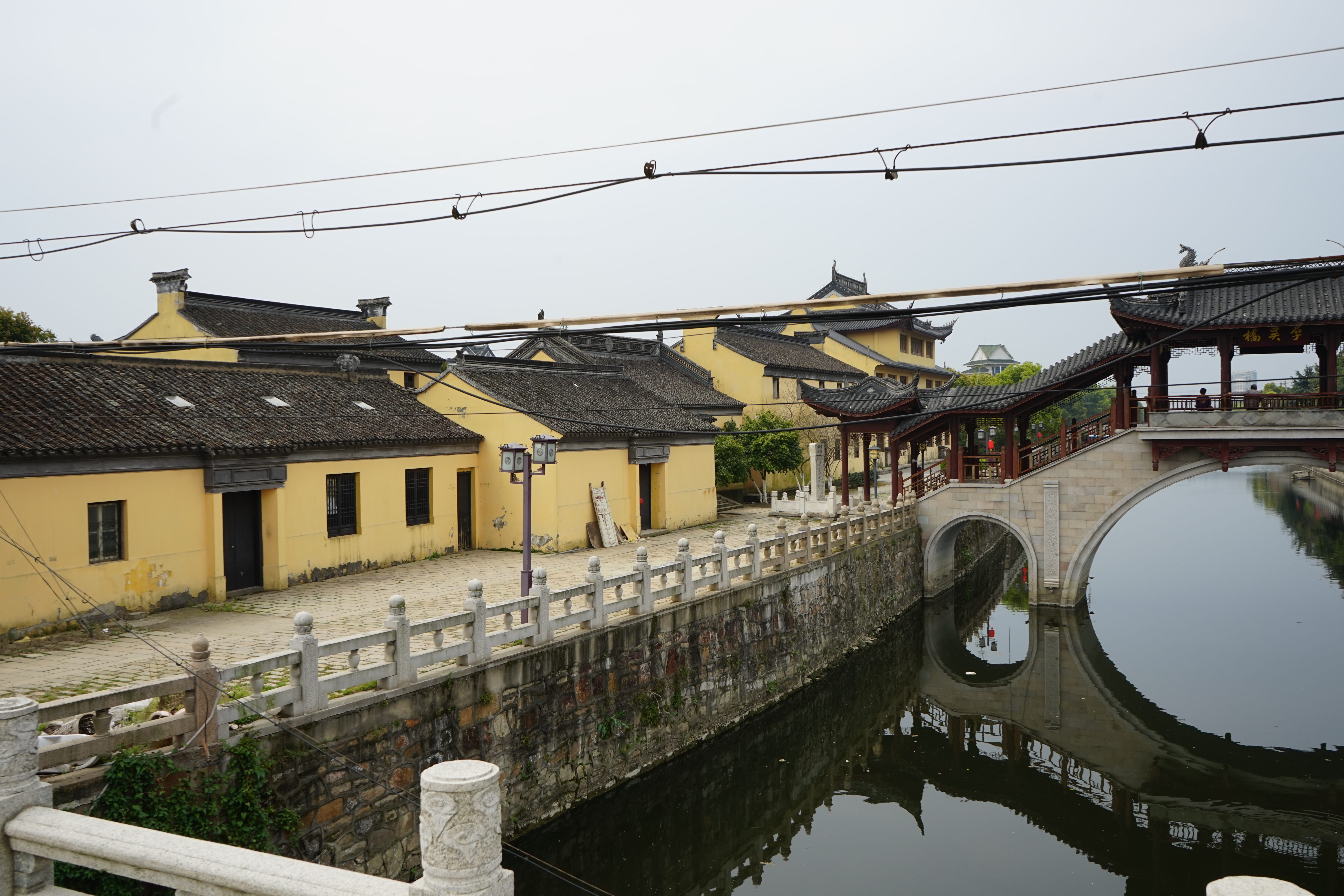 Bodu River (伯渎河) and the back of Taibo Temple